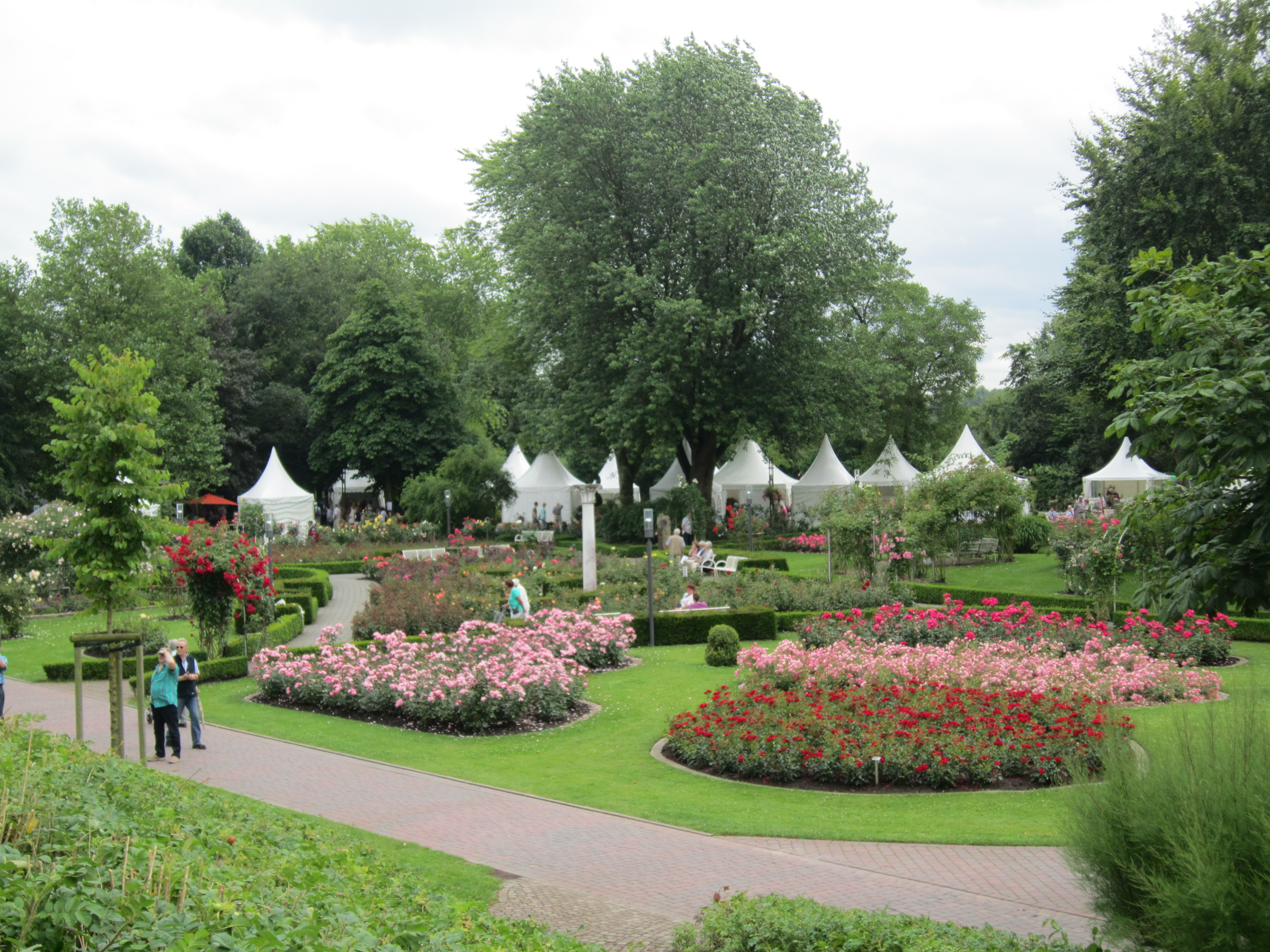 Flea market "Rosenzeit" at the rose garden of the Bad Rothenfelde spa gardens